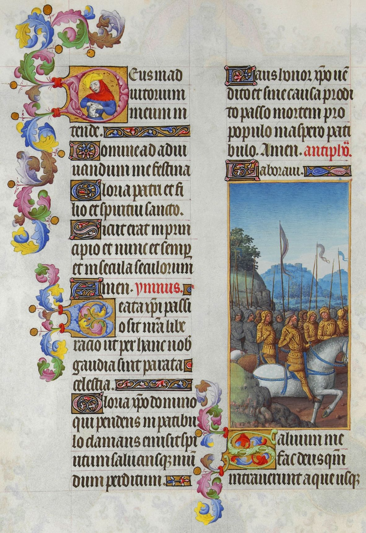 Très Riches Heures du Duc de Berry, Folio 153v Psalm LXVIII, the Musée Condé, Chantilly.